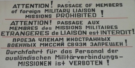 Typical sign posted to prevent Military liaison missions entering prohibited areas